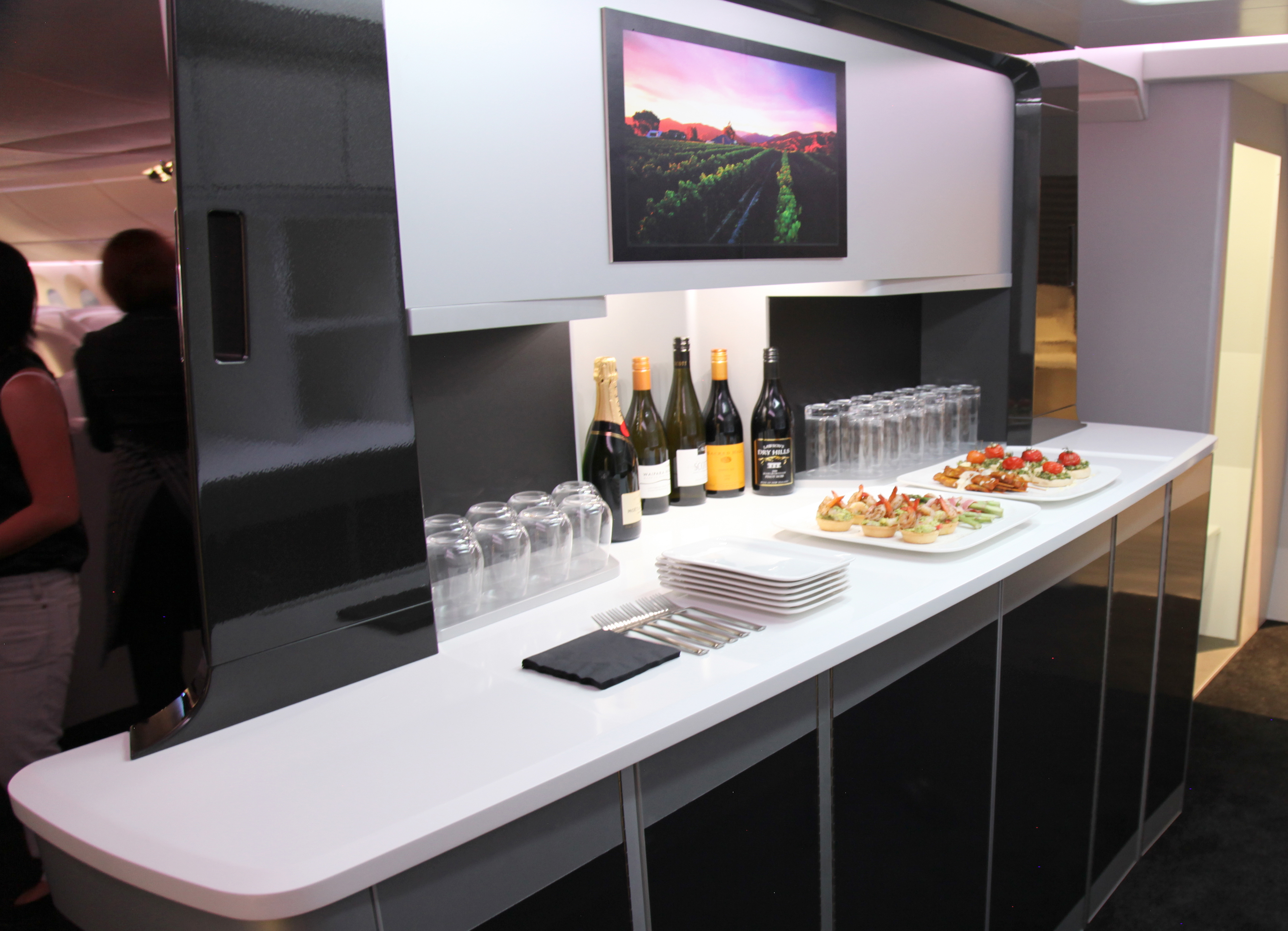 New Galley design that will appear in the 777-300 and 787 at Air New Zealand soon.